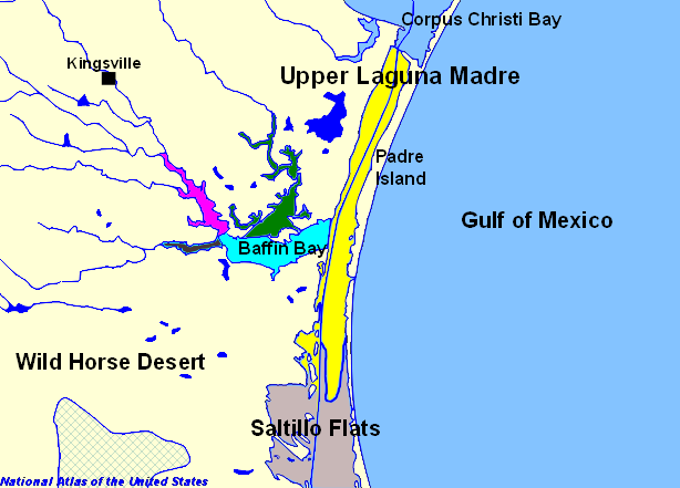 Map of Upper Laguna Madre, adapted from the National Atlas